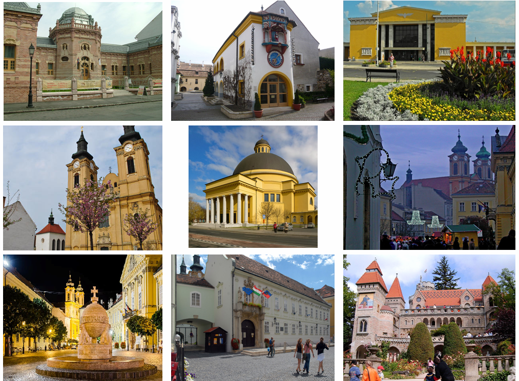 The City of the Kings, Székesfehérvár, Hungary. From up, left: Árpád Spa, Musical Clock and Clock Museum, Central Railway Station, St. Stephen Chatedral, Ottokár Prohászka's Memorial Church, City Hall Square (Városház tér) with the Cistercian Church, City Hall Square with the Orb and the Episcopal Palace (and the Cistercian Church), City Hall, Bory Castle